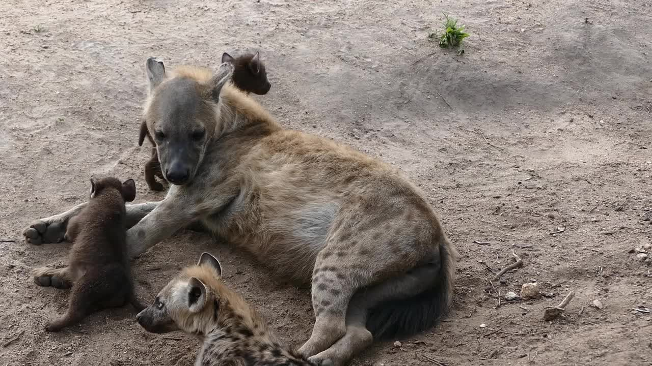 H1-1 Road East of Pretoriuskop, Kruger NP, Mpumalanga, SOUTH AFRICA